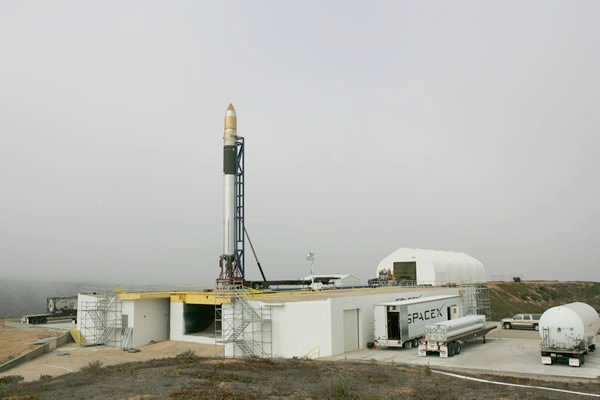 Falcon 1 rocket on the pad, Vandenberg Air Force Base Space Launch Complex 3 West (SLC-3W), (See talk page for GFDL permission notes and SpaceX contact information)